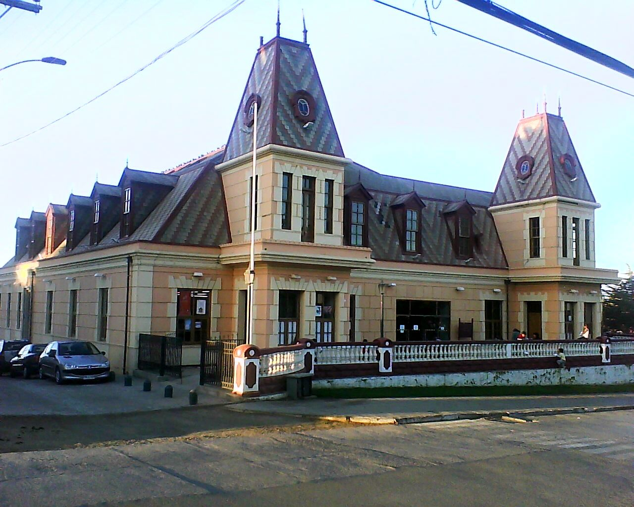 Ross Casino in June 2010.